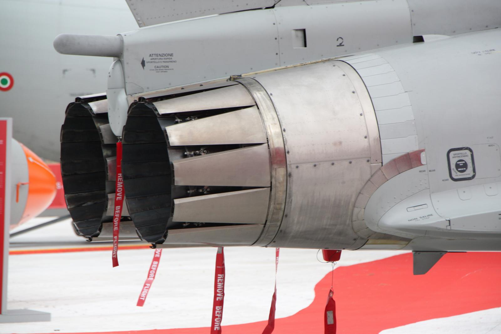 Engine nozzles and rear MAW